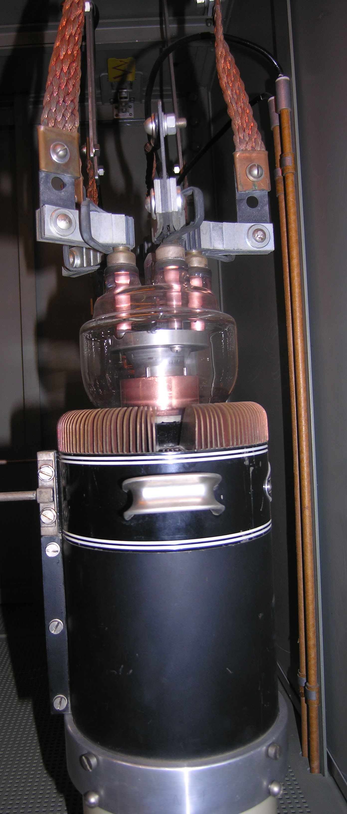 High power vacuum tube of the military radio equipment. The wide copper wires provide current for the heating of the cathode.